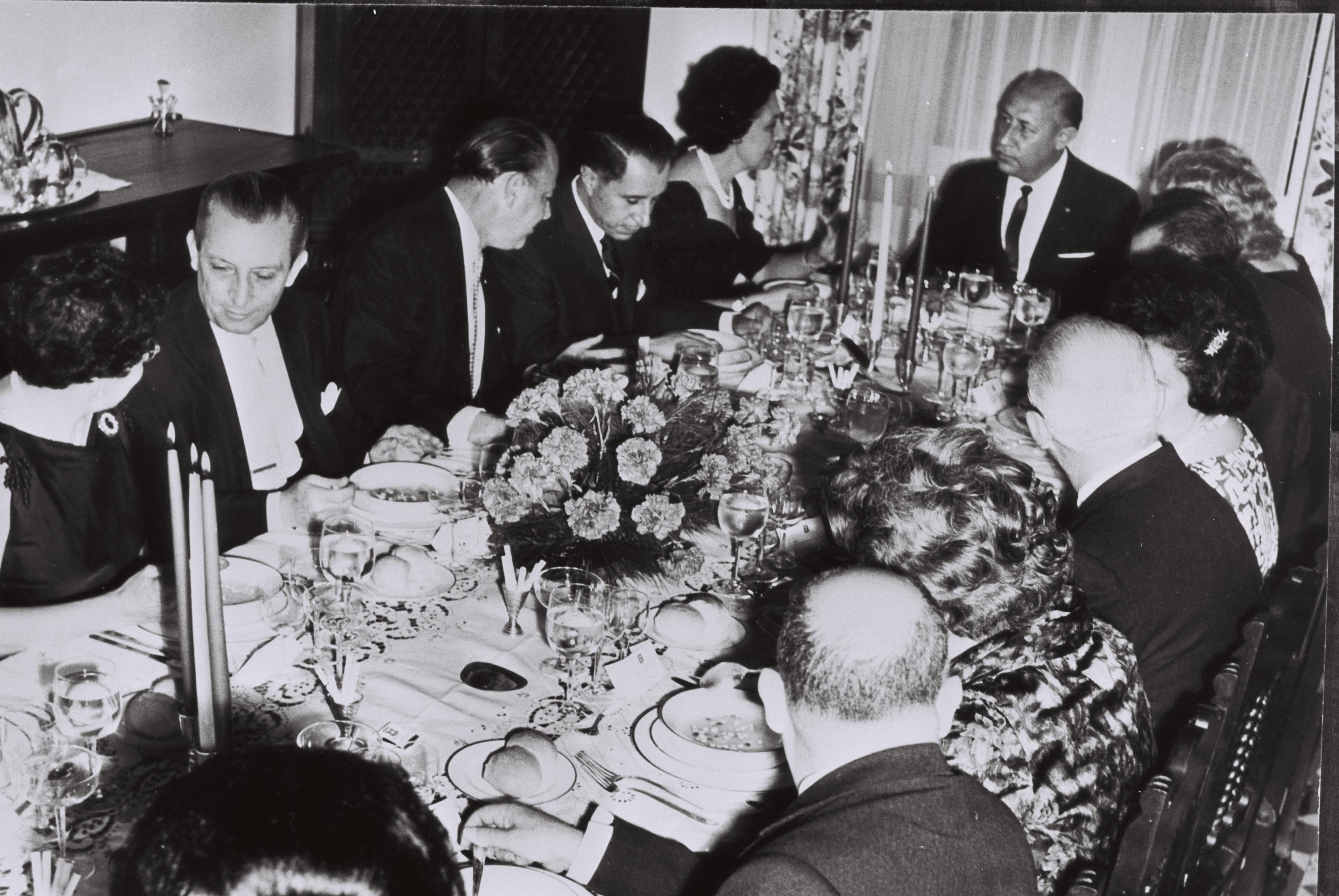 DINNER GIVEN BY ISAREL AMB. JOSHUA N. SHAI IN HONOR OF GUATAMALA P.M. ENRIQUE PERALTO AZURDIA, AT HIS RESIDENCE IN GUATAMALA.